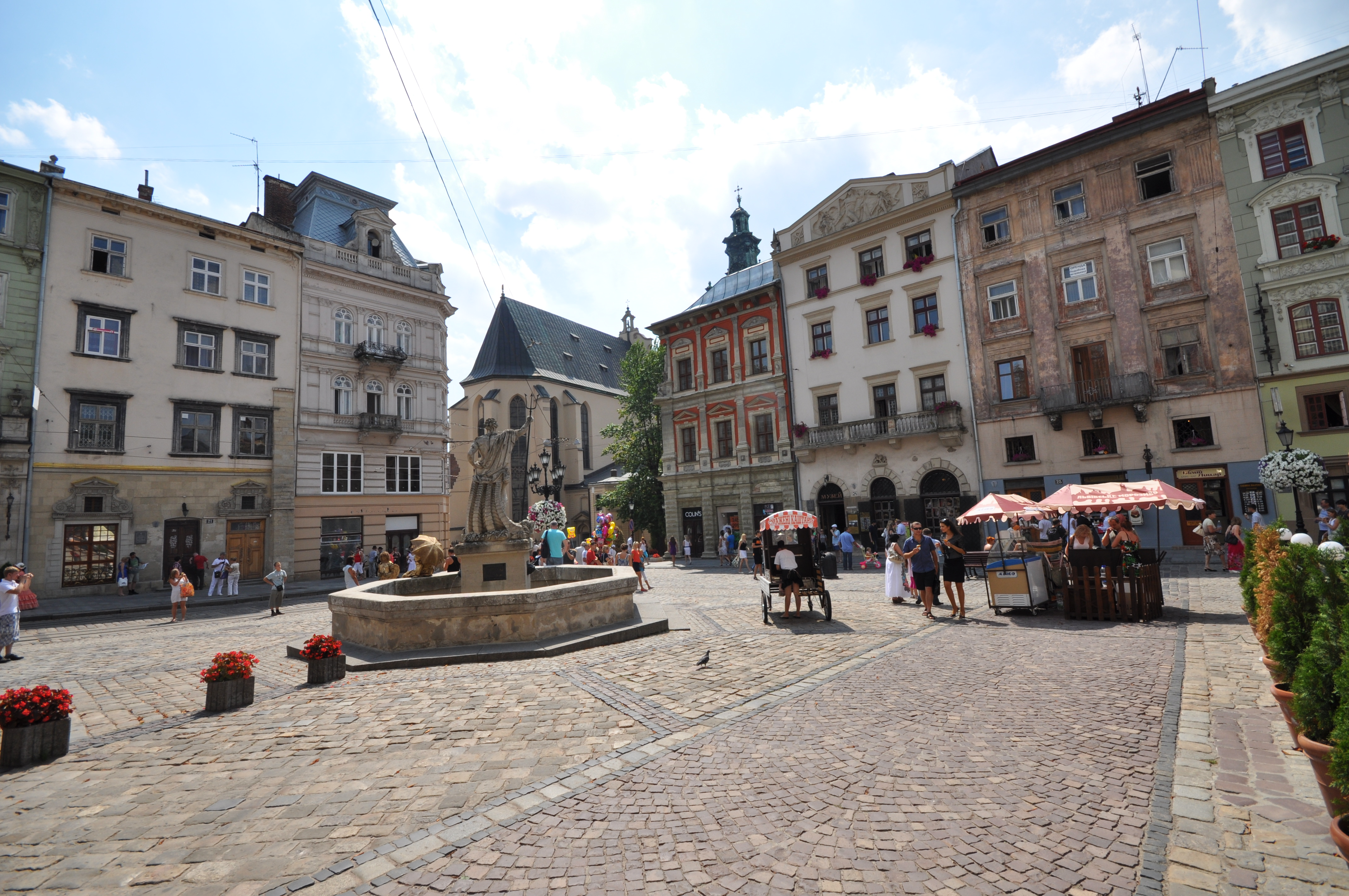 The Rynok Square in Lviv is a central square of the city of Lviv, Ukraine. It was planned in the second half of the 14th century, following granting city rights by Polish king Casimir III, who annexed Red Ruthenia. The king ordered Lviv to be moved more to the south, where a new city was built to the plan of a traditional European settlement: a central square surrounded by living quarters and fortifications. Old, Ruthenian Lviv had become a suburb of the new city. The square is rectangular in shape, with measurements of 142 meters by 129 meters and with two streets radiating out of every corner. In the middle there was a row of houses, with its southern wall made by the Town Hall. However, when in 1825 the tower of the Town Hall burned, all adjacent houses were demolished and a new hall, with a 65-meter tower, was built in 1835 by architects J. Markl and F. Trescher. Around the square, there are 44 tenement houses, which represent several architectural styles, from Renaissance to Modernism. In the four corners, there are fountains—wells from 1793, probably designed by Hartman Witwer. The sculptures represent four Greek mythological figures: Neptune, Diana, Amphitrite and Adonis. In front of the Town Hall, there was a pillory. In 1998 the Market Place, together with the historic city center of Lviv, was recognized as a UNESCO world heritage site